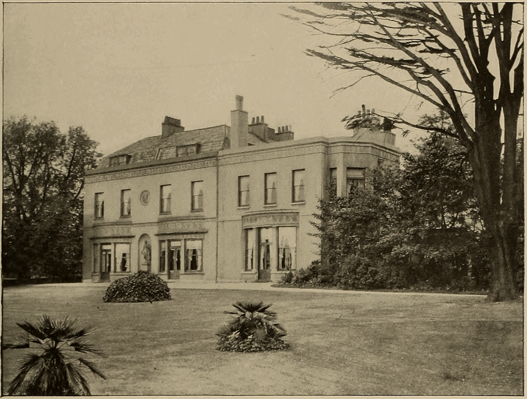 Cassier's Magazine of November 1897 had an article on page 83-92, titled Alfred Fernandez Yarrow. A Biographical Sketch. It was accompanied by a number of illustrations, including this photo of the Alfred Yarrow's residence at Woodlands House, Blackheath, on page 83.